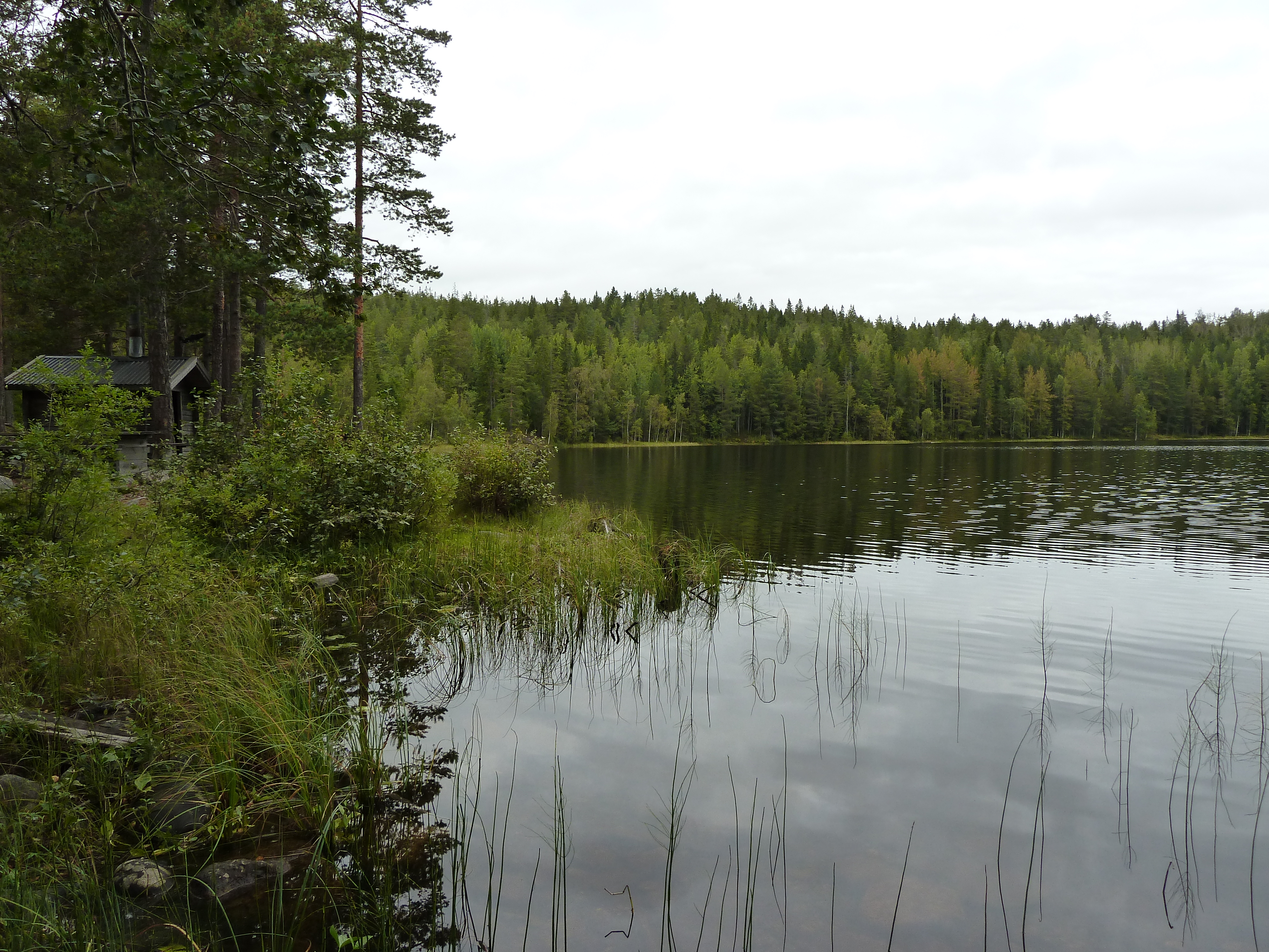 Svarttjärn, Ångermanland, Sweden